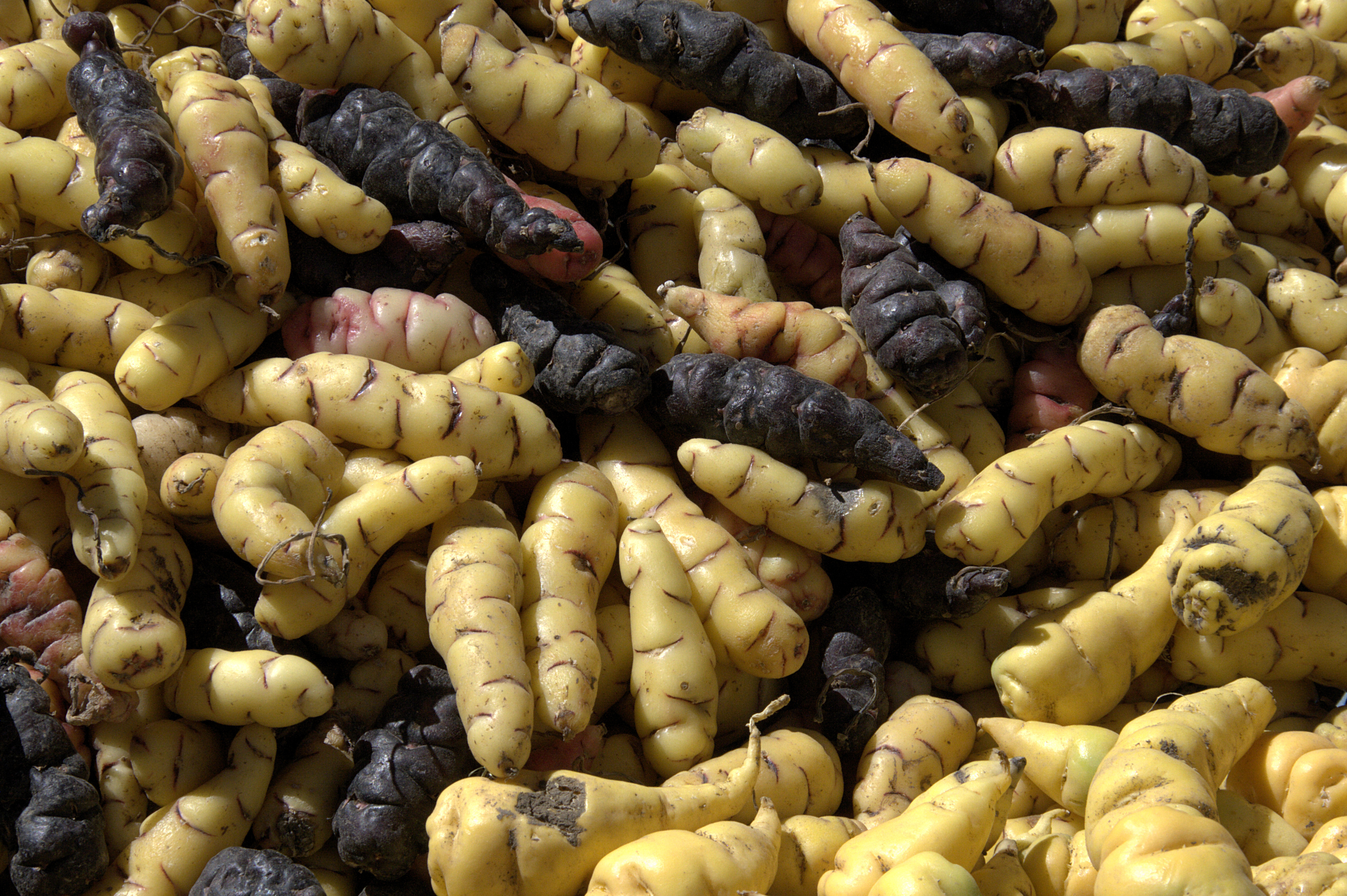 Oca (Oxalis tuberosa), peruvian